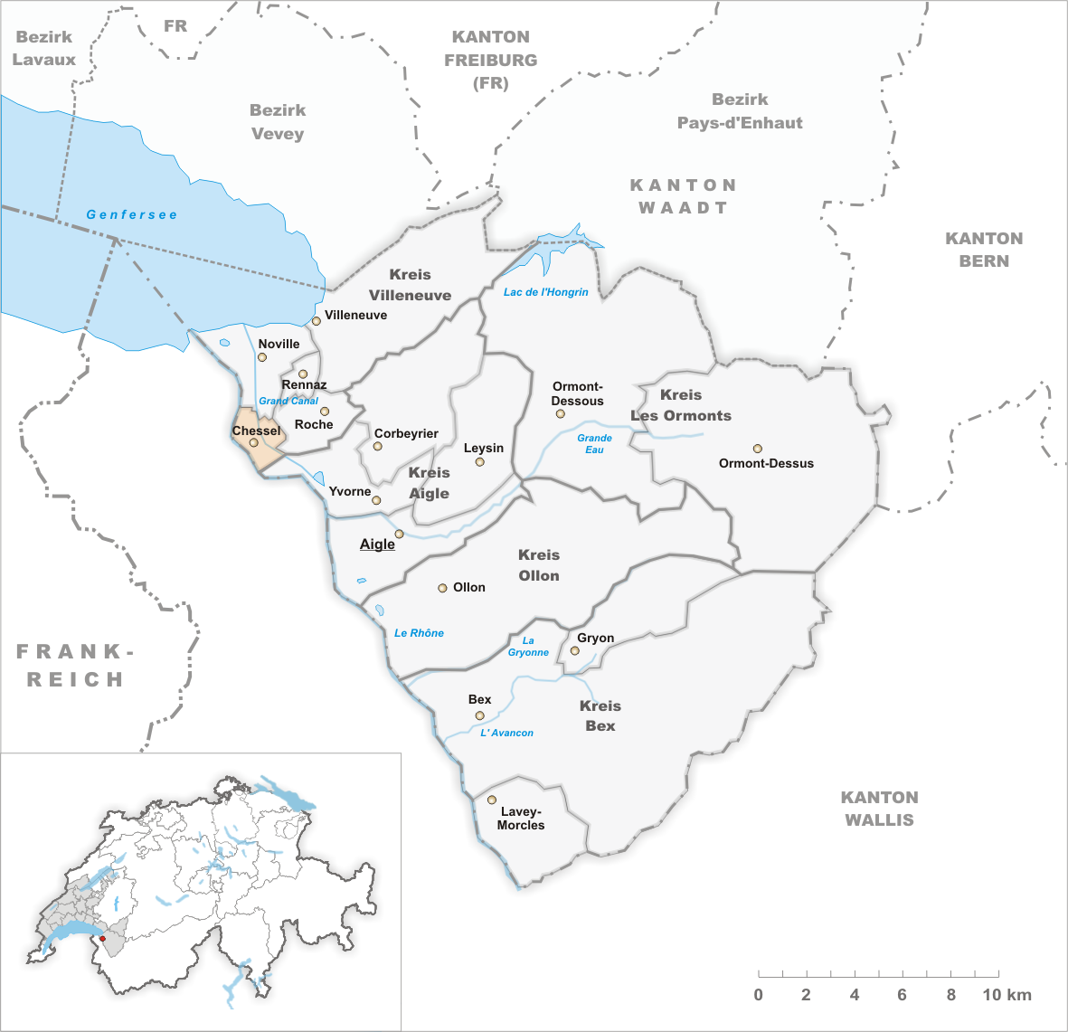 Municipality Chessel